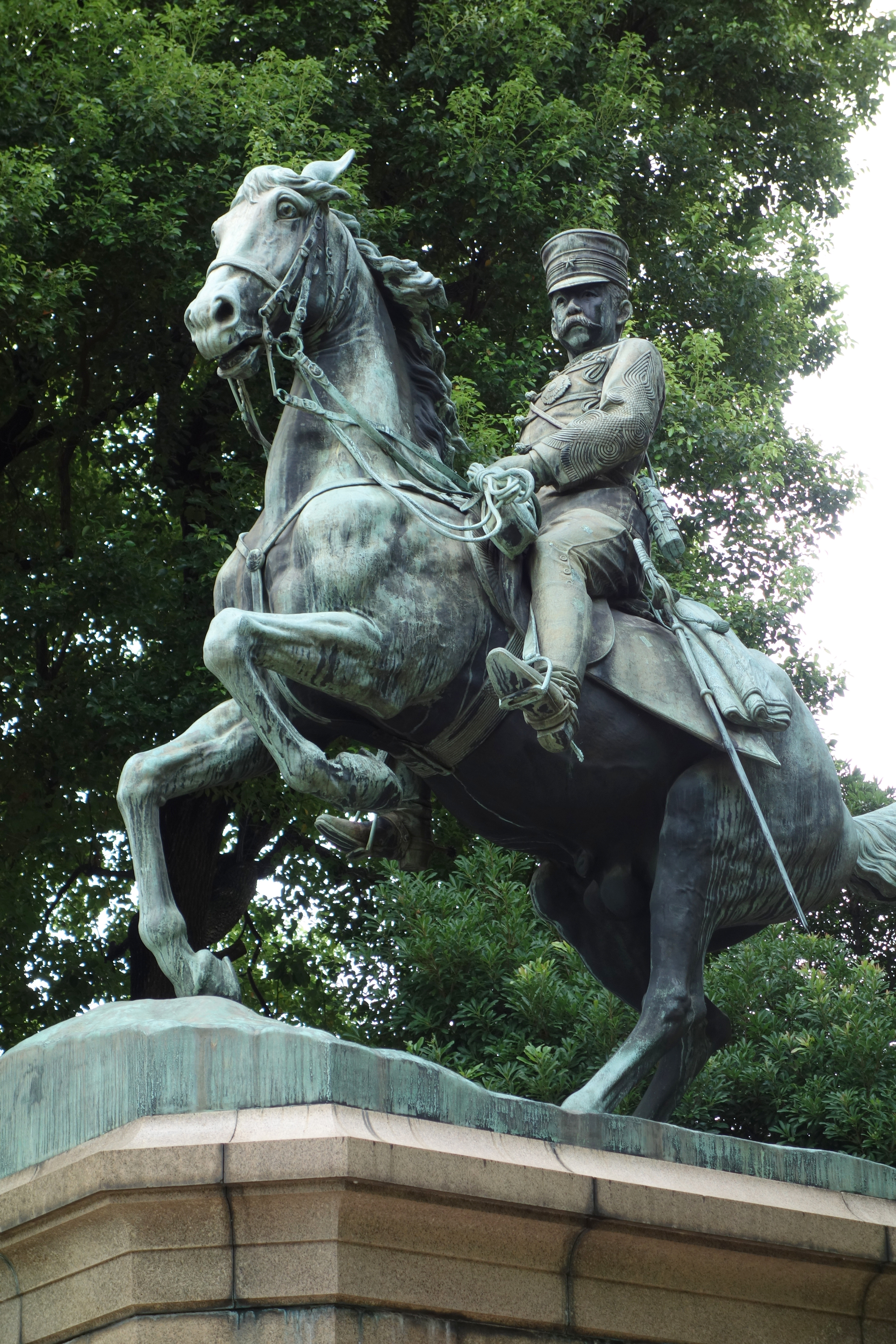 Prince Kitashirakawa Yoshihisa memorial - Kitanomaru Park, Tokyo, Japan